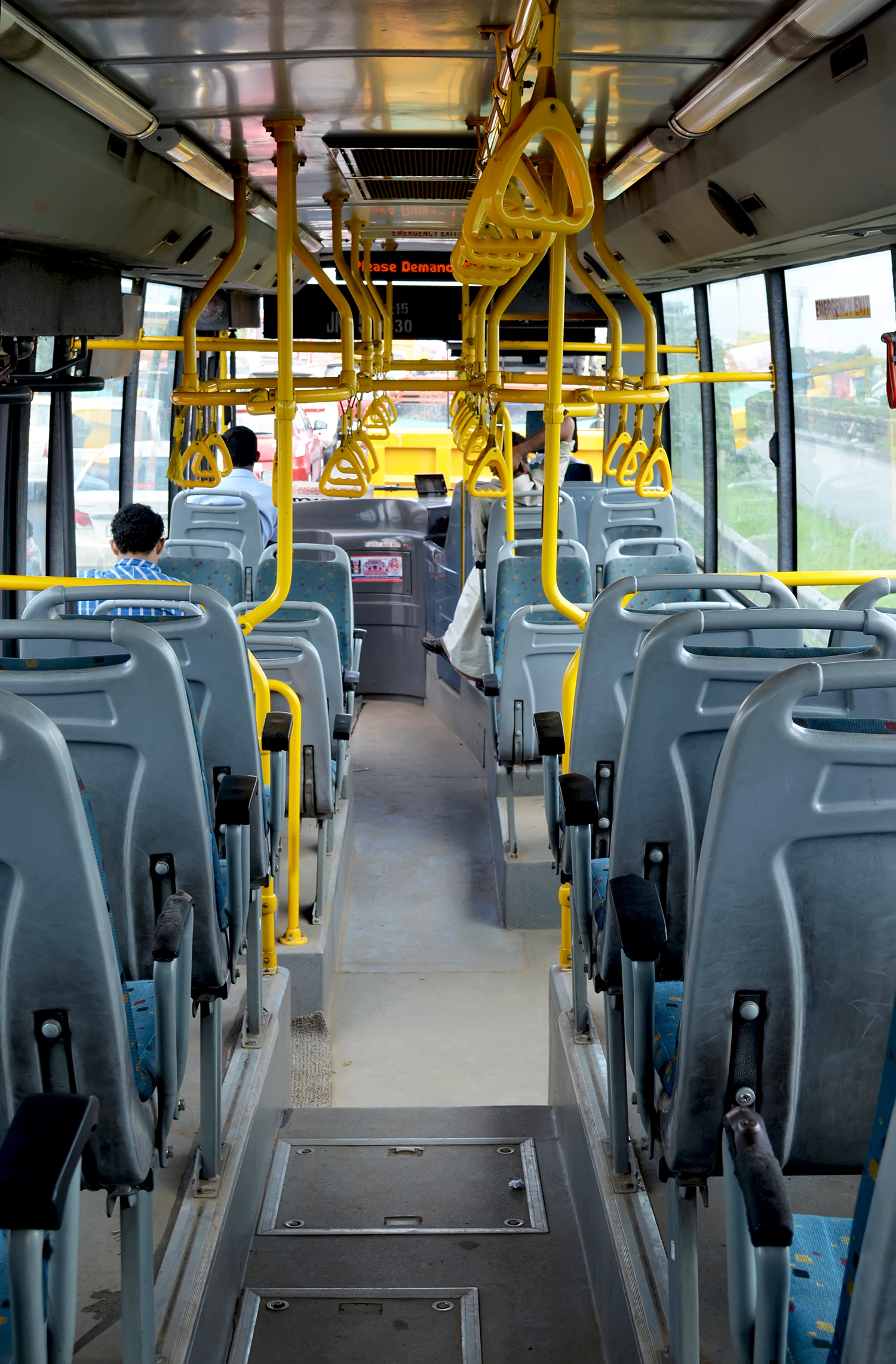 Inside Bus